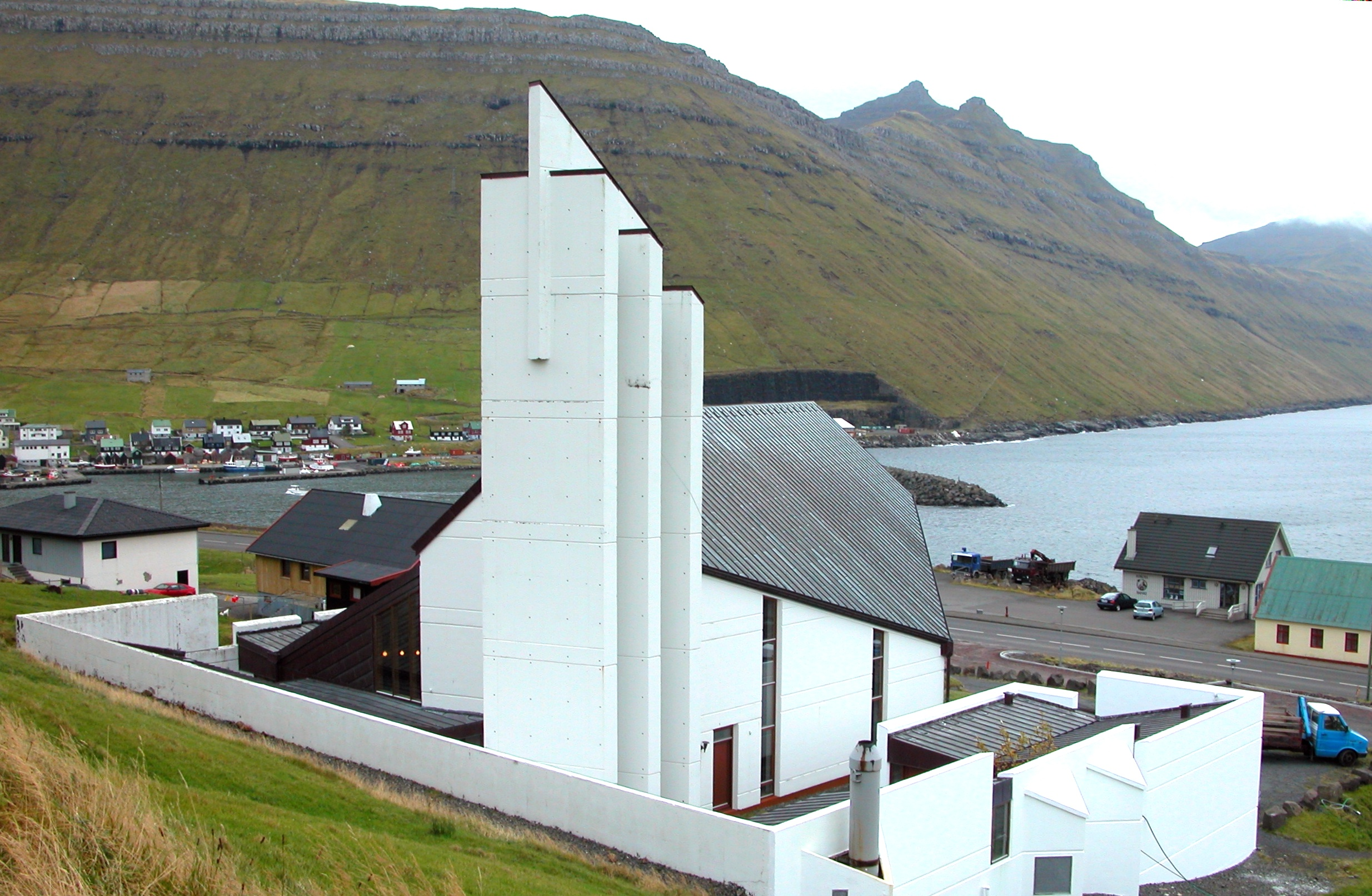 The new church of Gøta in Gøtugjógv on Eysturoy, Faroe Islands.